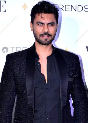 Gaurav Chopra graces Vogue Beauty Awards 2017.